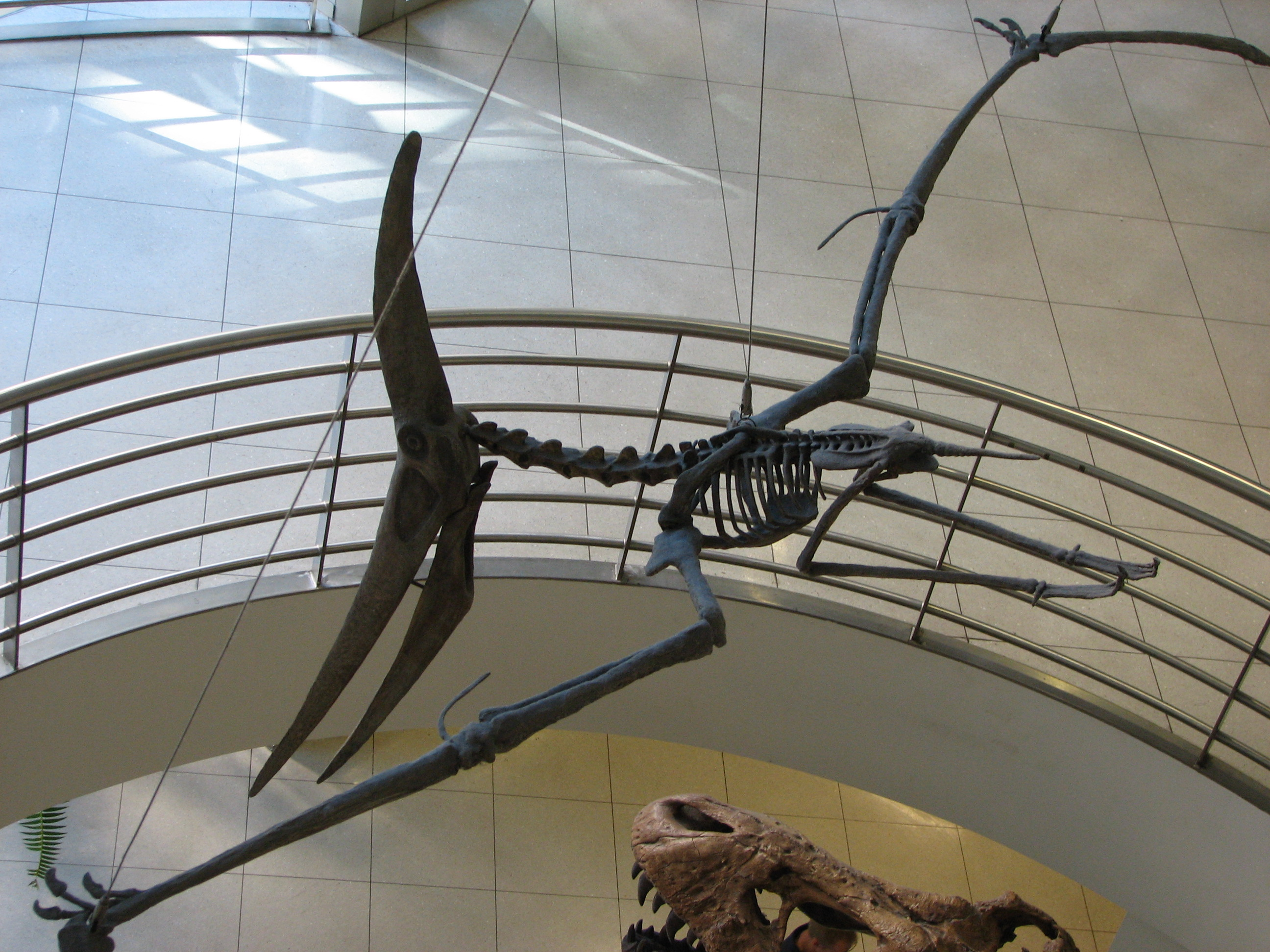 Pteranodon skeleton (view from above left side) on display at the University of California, Berkeley in VLSB